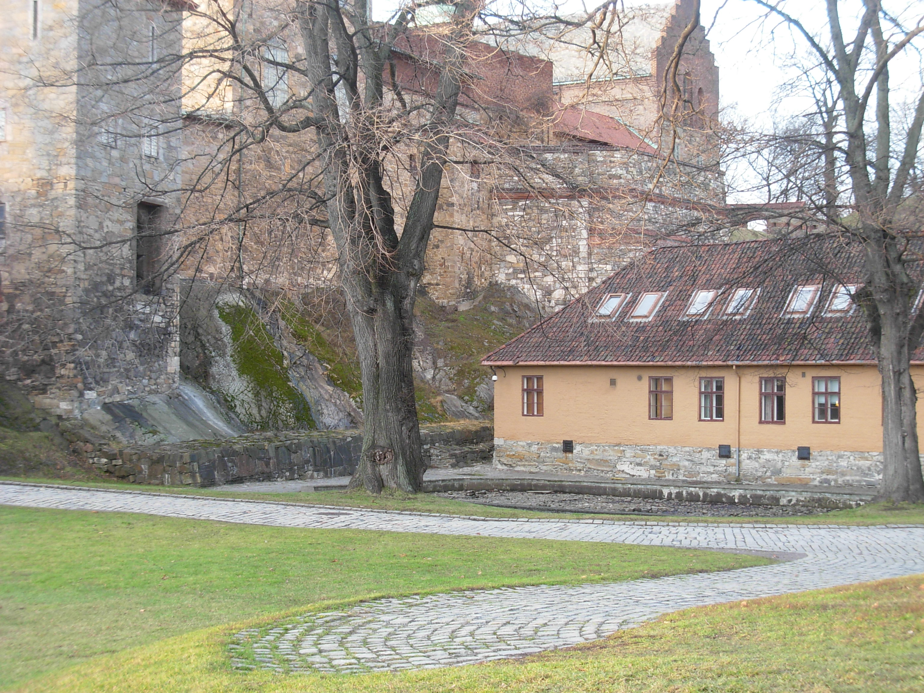 Akershus castle, Munkedammen where the old castle garden (Slottshaven) were